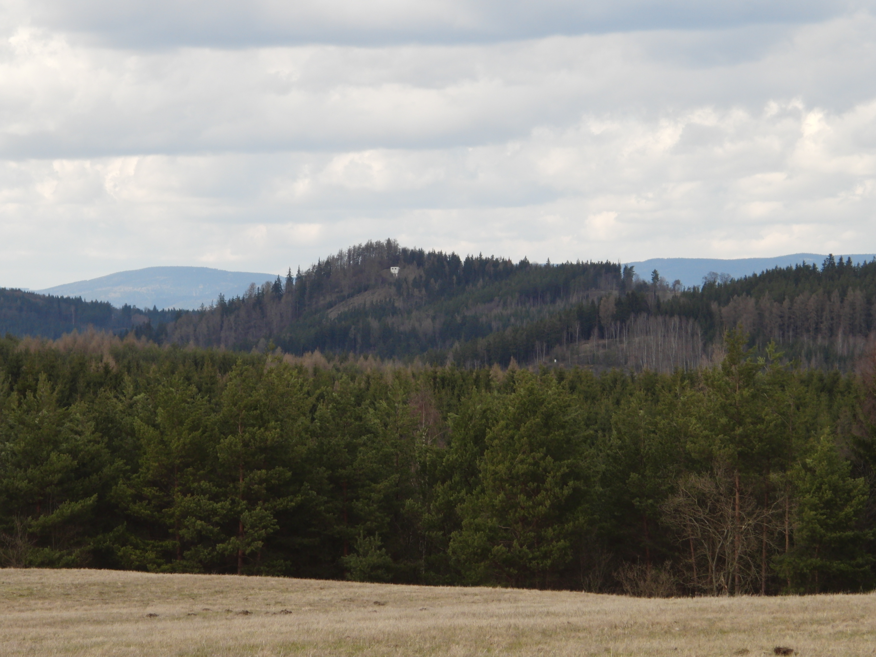 Zámecký hill near Háje (Karlovy Vary distr.)